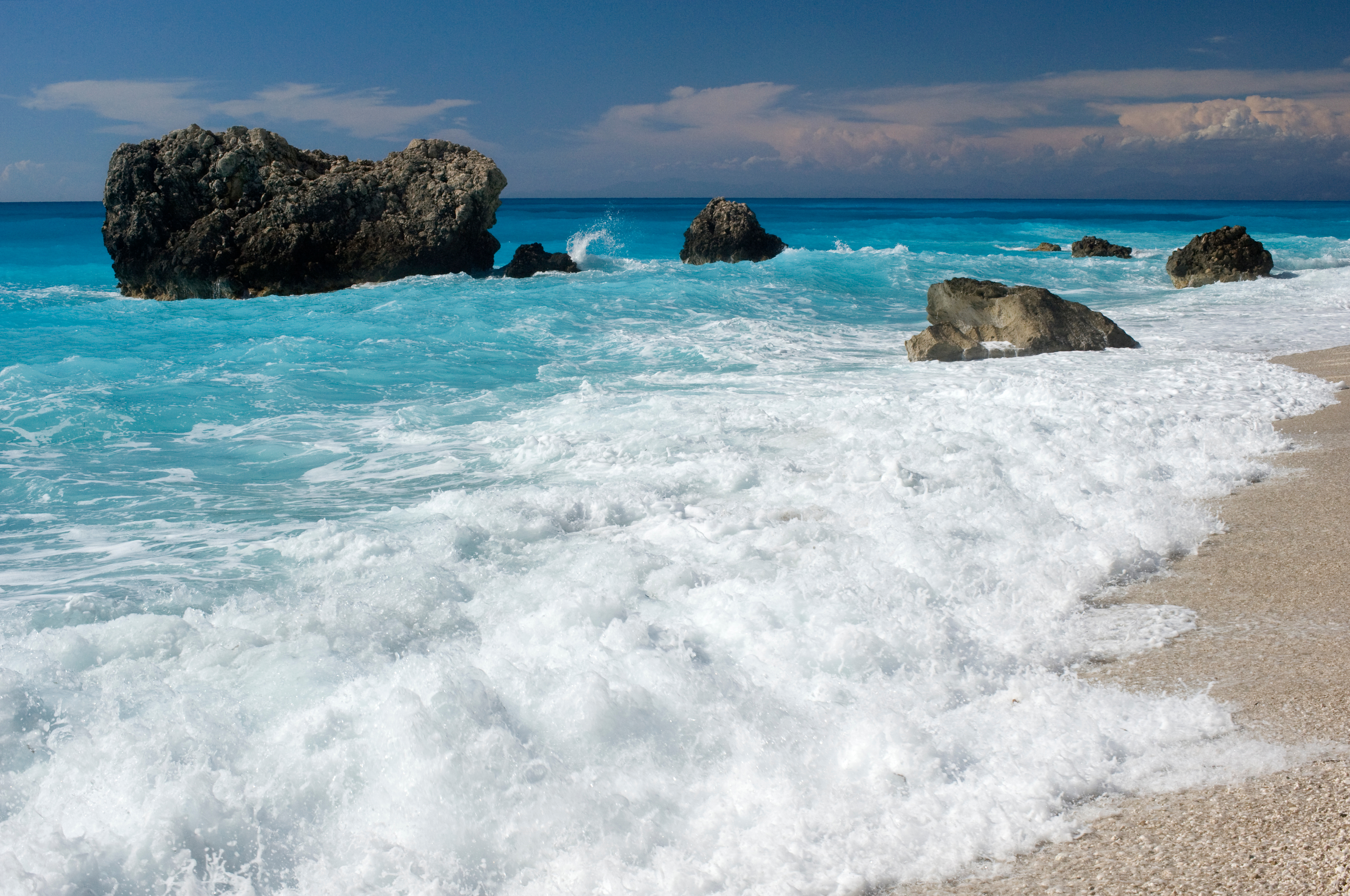 Kalamitsi beach, Lefkada island, Ionian sea, Greece.